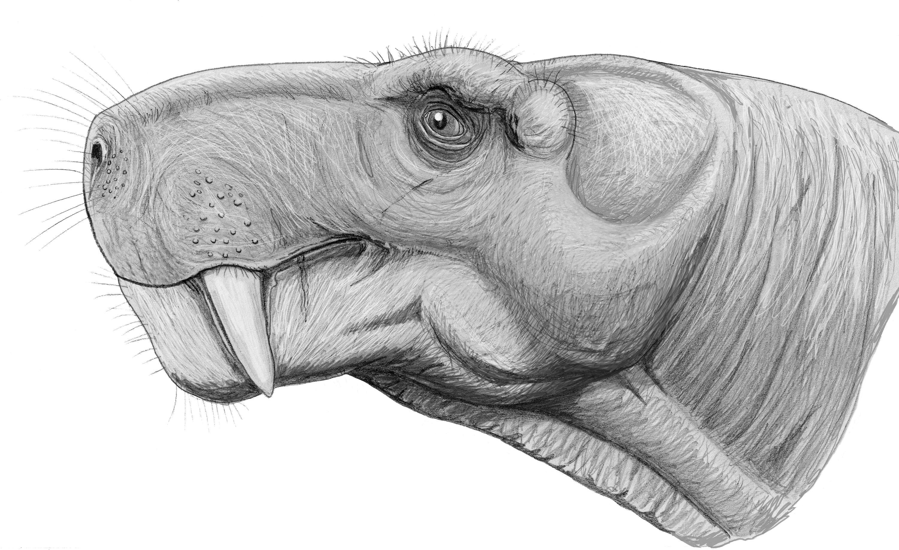 Head of Rubidgea atrox - giant gorgonopsian from Late Late Permian of South Africa.